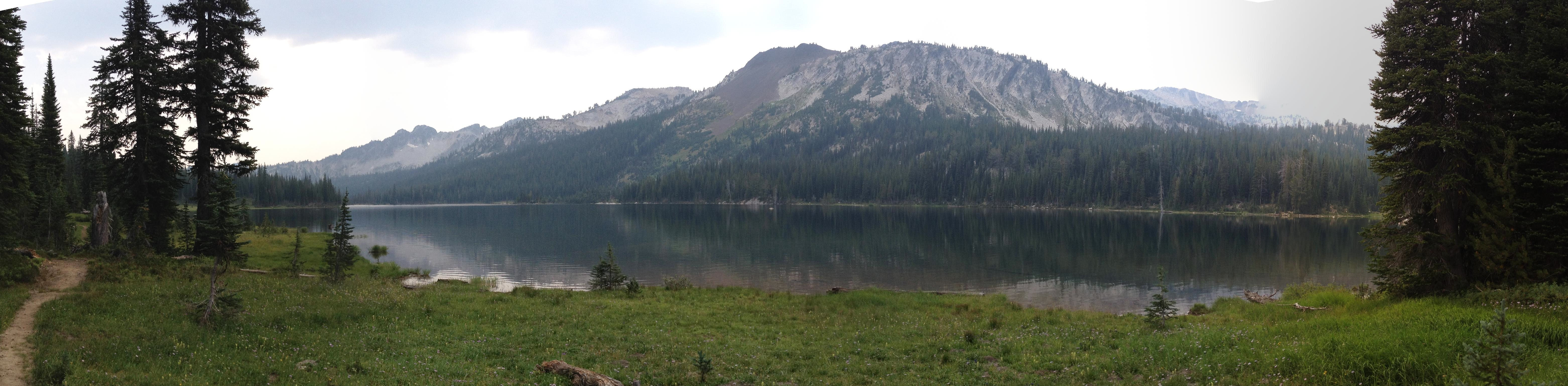 Panorama of Minam Lake in the Eagle Cap Wilderness, Wallowa Mountains, northeastern Oregon, United States